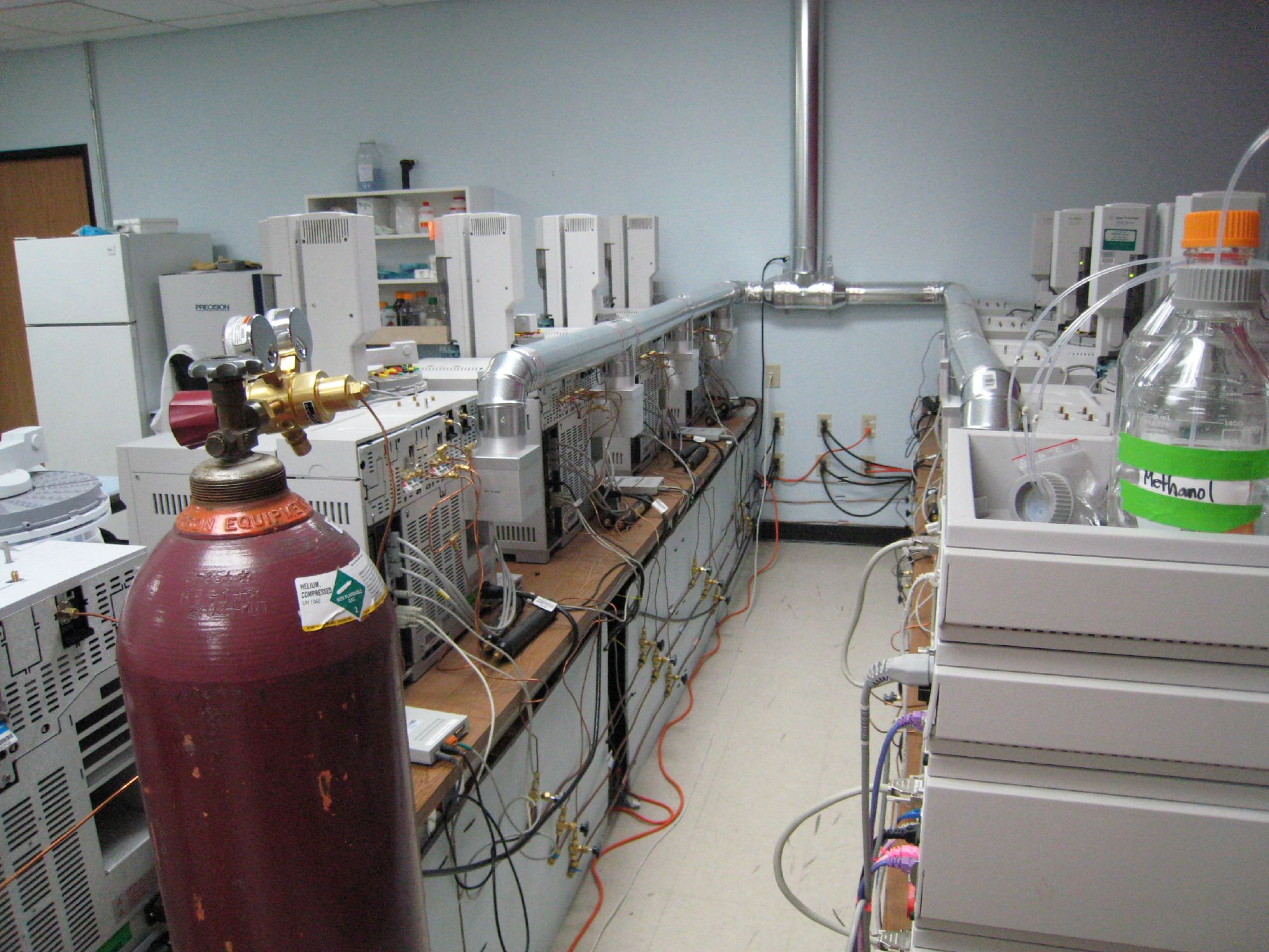 Gas Chromatography Laboratory